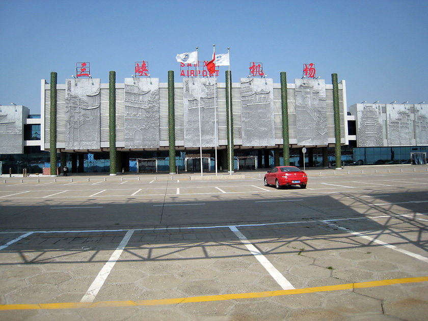 China Hubei Yichang Sanxia airport